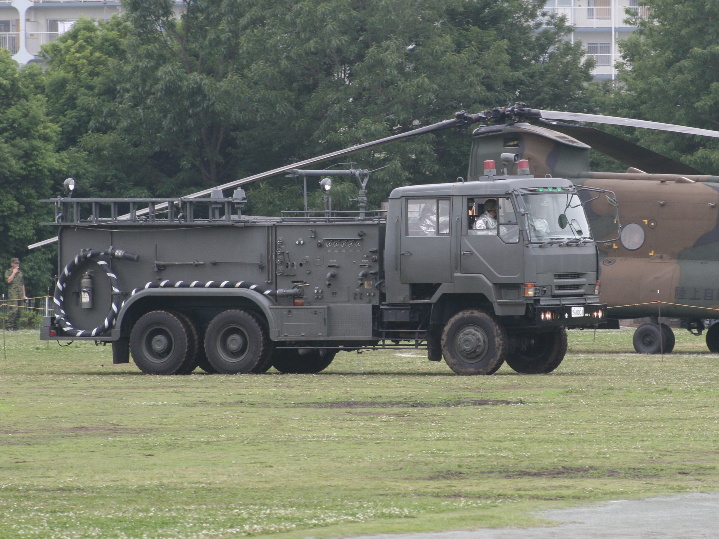 Chemical fire engine of Central Nuclear Biological Chemical Weapon Defense Unit.